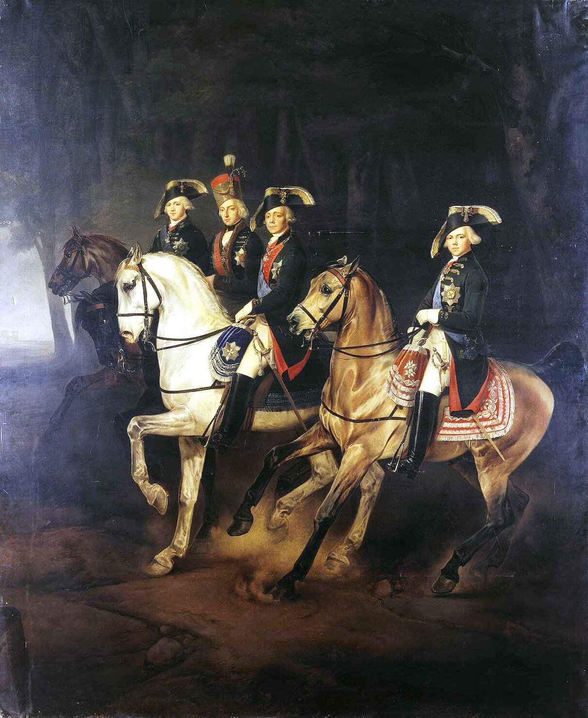 Equestrian Portrait of Emperor Paul I with his Sons and Joseph I, Palatine of Hungary